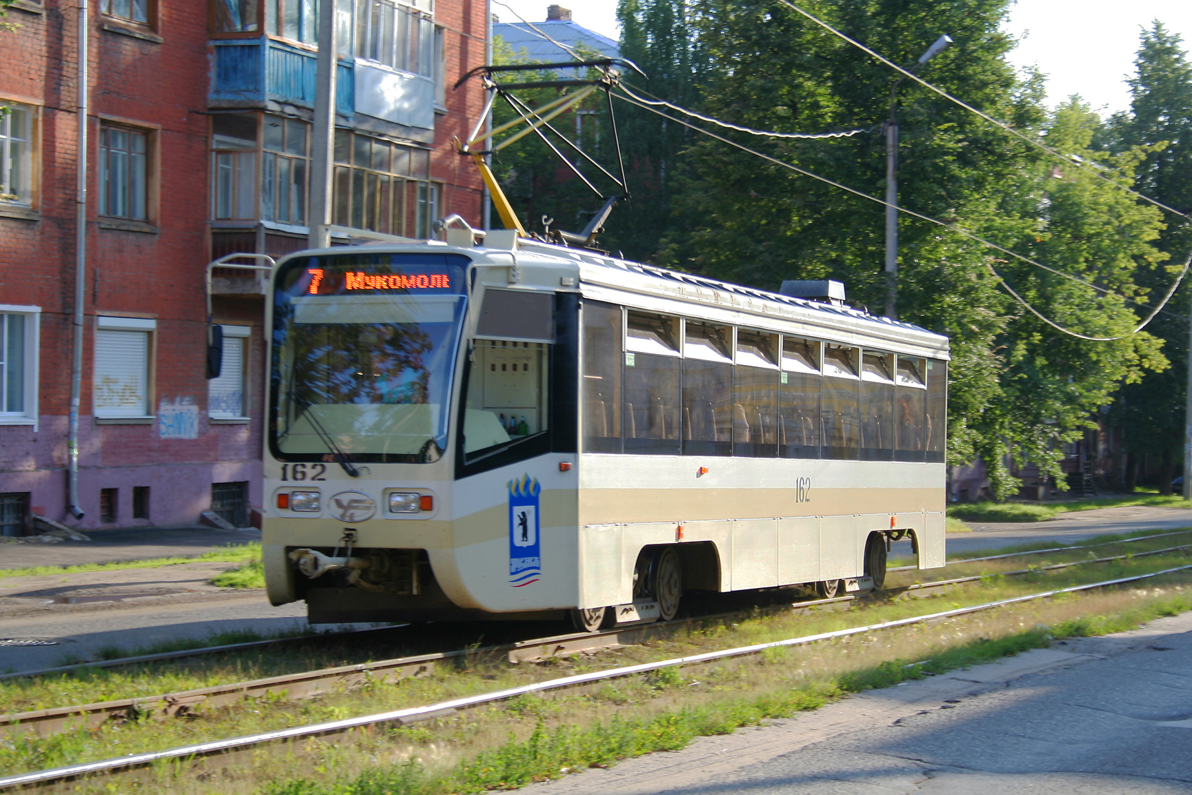 A tram in Yaroslavl, Russia